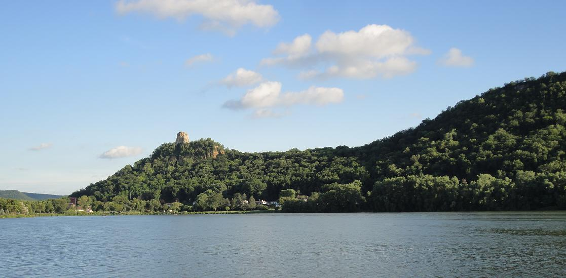 Lake Winona and bluffs in Winona, Minnesota